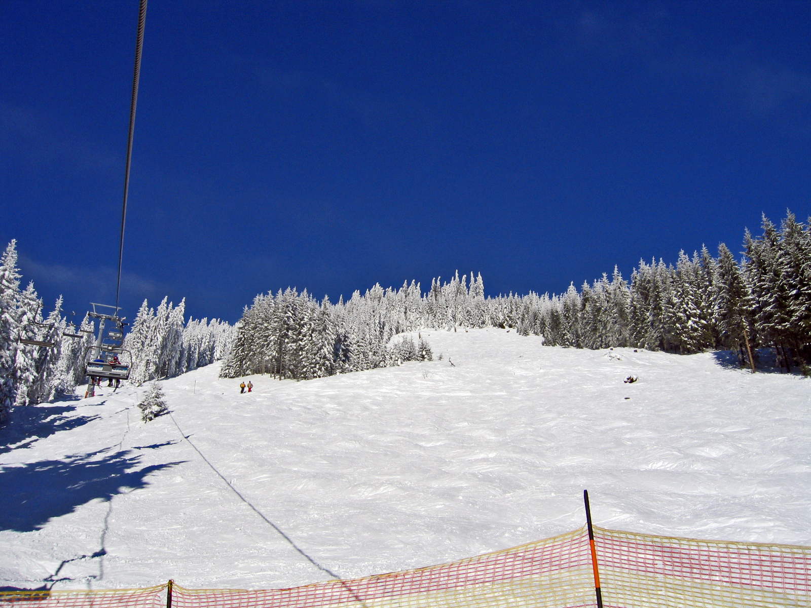 Sciresort Präbichl Styria